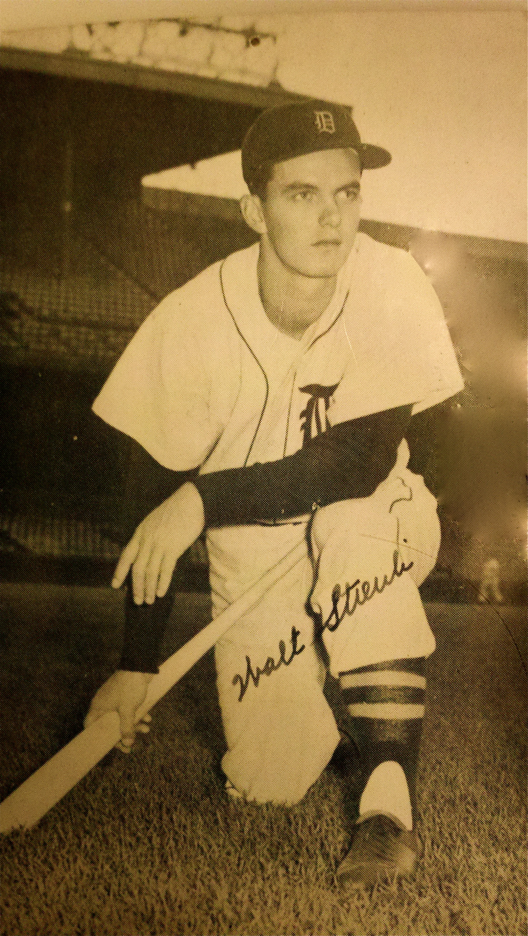 Team Picture of Walter Streuli